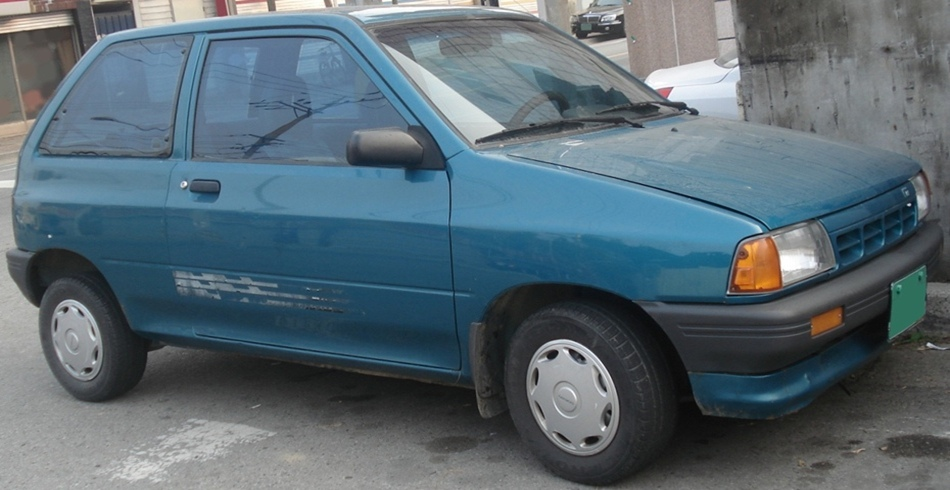 Kia Pride